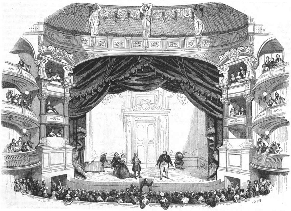 A scene from Act 2 of Donizetti's Don Pasquale as premiered at the Salle Ventadour in Paris by the Théâtre-Italien in 1843